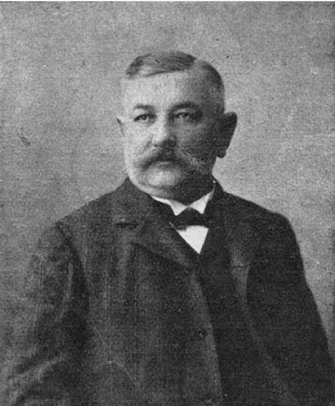 Portrait of Lajos Bella